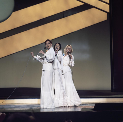 Chocolat, Menta, Mastik at a rehearsal for the Eurovision Song Contest 1976.